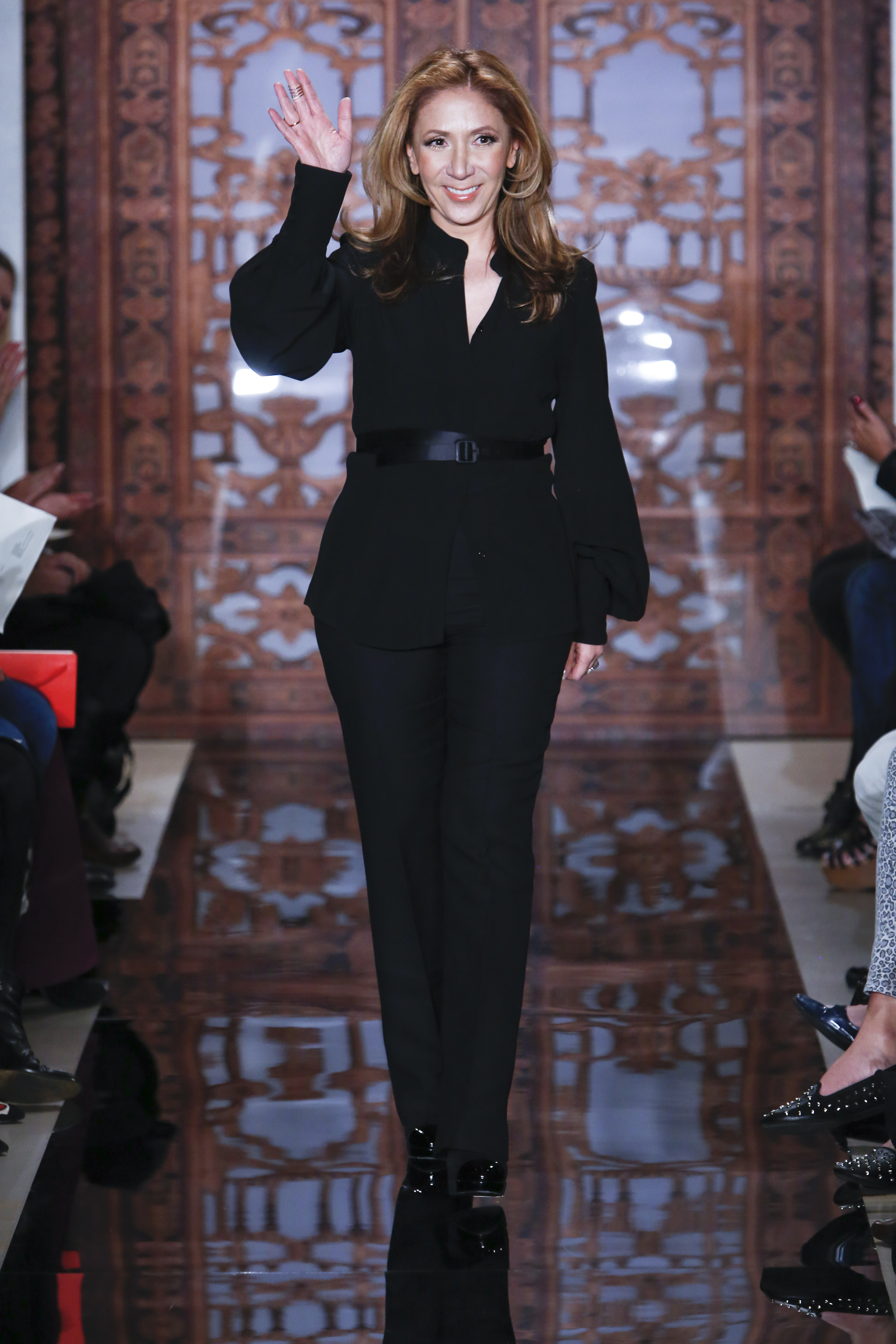 New York City Based Fashion Designer